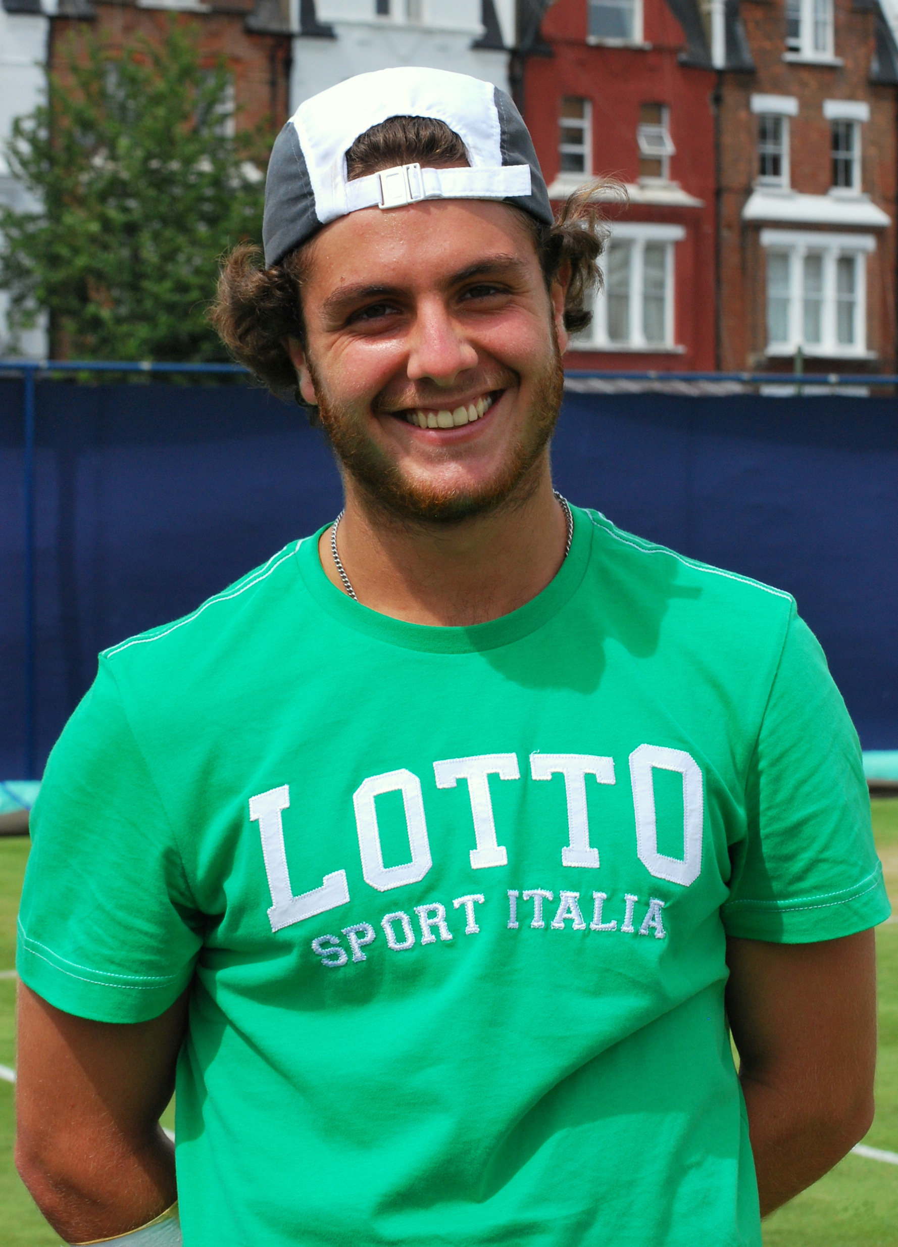 On the practice court at the 2012 Aegon Championships. David Nalbandian's hitting partner this week.